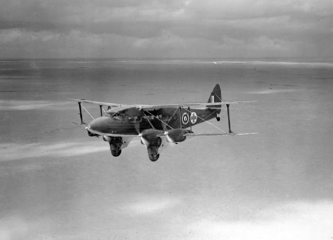 A Royal Australian Air Force De Havilland DH.86A Express air ambulance (s/n A31-7) in flight, one of eight used by the RAAF from 1939 until 1945. Capable of carrying one doctor and up to eight patients (six of whom can be carried on stretchers), these four engined biplanes served with 35 and 36 Squadrons and 1 Air Ambulance Unit (1 AAU). A31-7 served with 1 AAU in the Middle East. It arrived at Cairo on 3 July 1941 and was based at Gaza and Gerawla supporting the work of 1 Australian General Hospital before being damaged on the ground in an enemy attack on Mersa Matruh airfield on 31 January 1942. Despite being riddled with shrapnel holes, it was repaired with parts scavenged from enemy aircraft and flown again, being the only aircraft 1 AAU had which was capable of flying for most of the first half of 1942. As the last operational DH.86A, A31-7 was withdrawn from use due to the unavailabillity of 77-octane fuel after transporting patients during the Italian campaign in 1943. It has been suggested that the aircraft was then dismantled for spares and probably scrapped. A total of 8,252 patients were airlifted by 1 AAU during the unit's service in the Middle East and Italy.